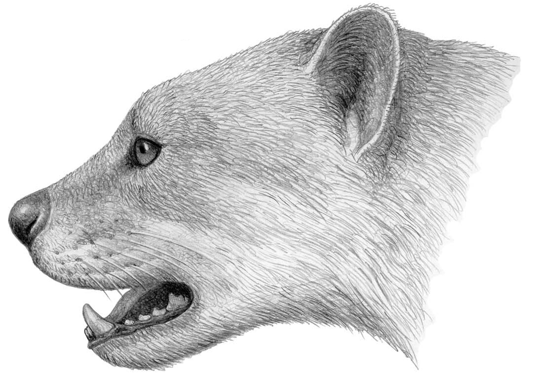 Restorative portrait of Simocyon